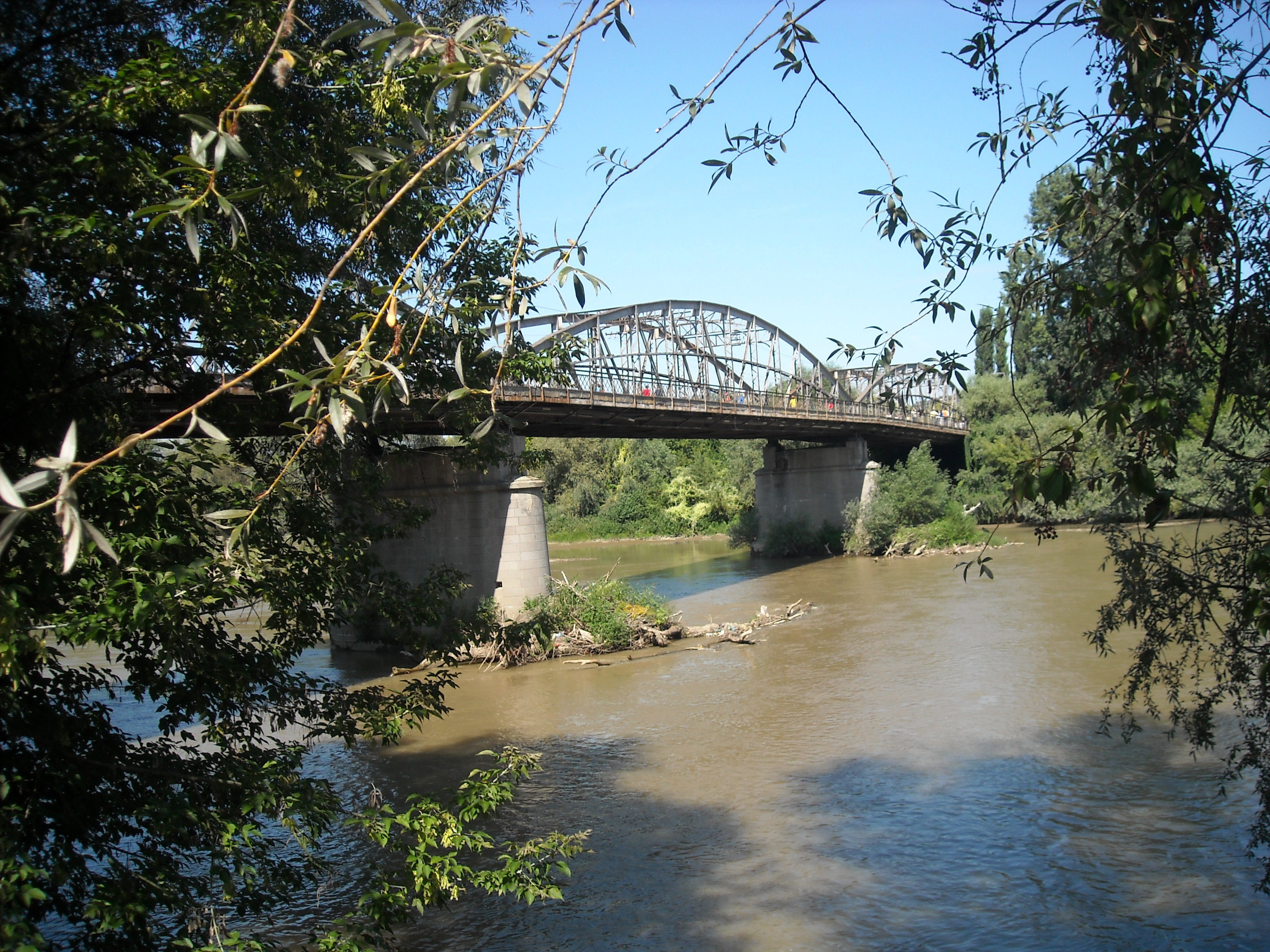 the first bridge in Lipova (Lippa) on the Mureş (Maros) river, constructed in 1896